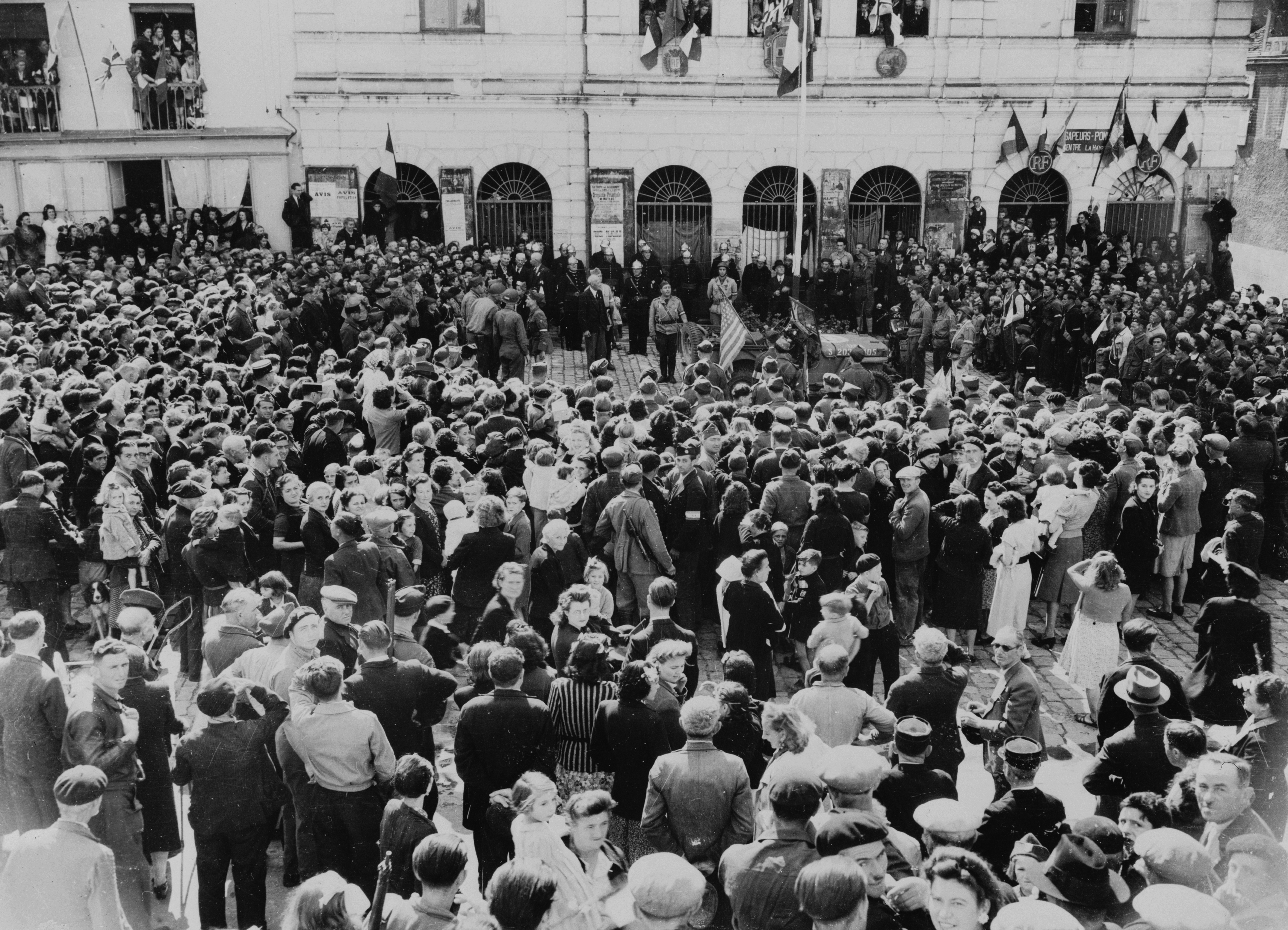 Descartes in 1944